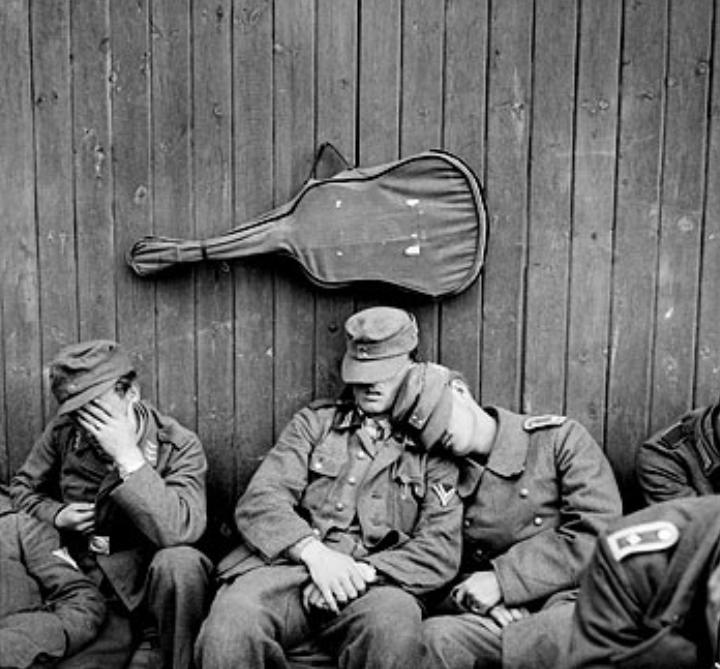 German prisoners of war being processed prior to embarkation from Norway to Germany. Here prisoners rest at the embarkation camp at Mandal prior to boarding boats for Germany.